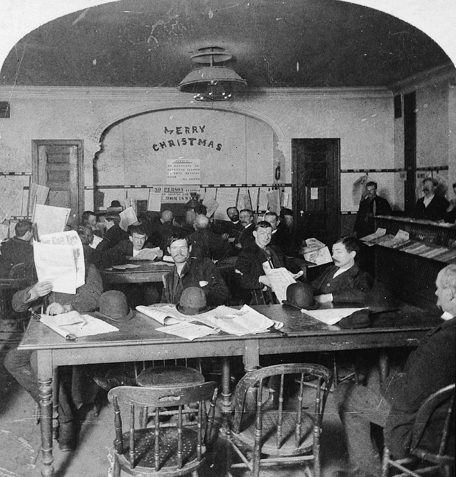 Jpg version of File:A free reading room, N.Y. City, U.S.A.tiff.